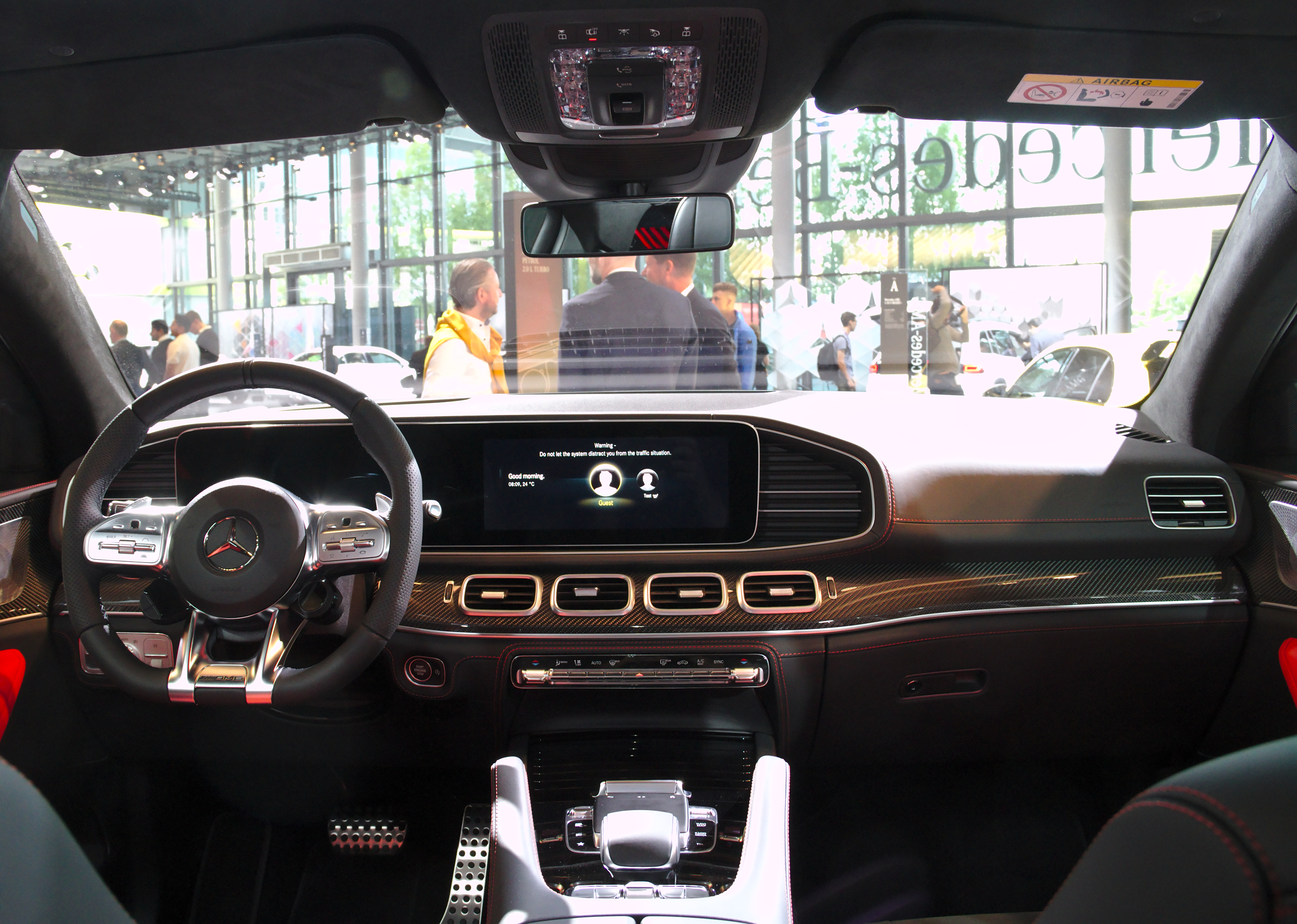 Mercedes-AMG_C167 at IAA 2019